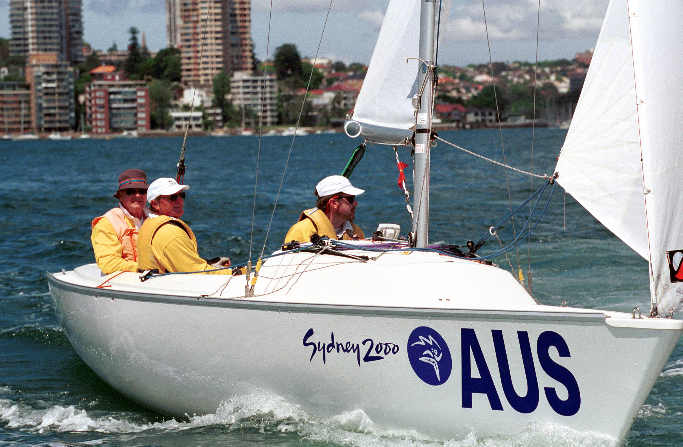 Action shot of Australian sonar class sailors Jamie Dunross, Noel Robins and Graeme Martin in the Sydney Harbour during sailing competition at the 2000 Sydney Paralympic Games